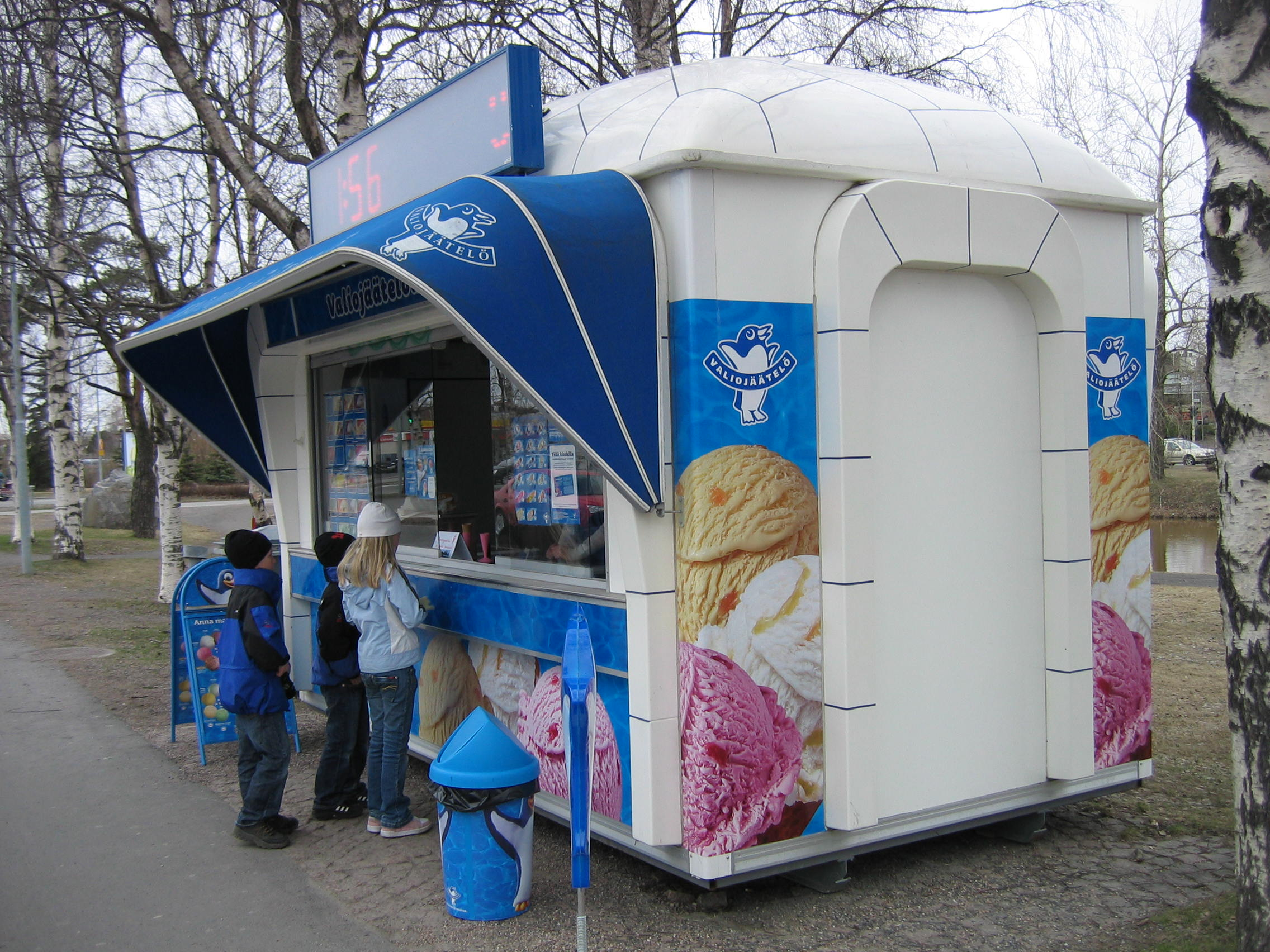 An ice cream kiosk in the Karjasilta park in Oulu, Finland, on the first of May in 2007.